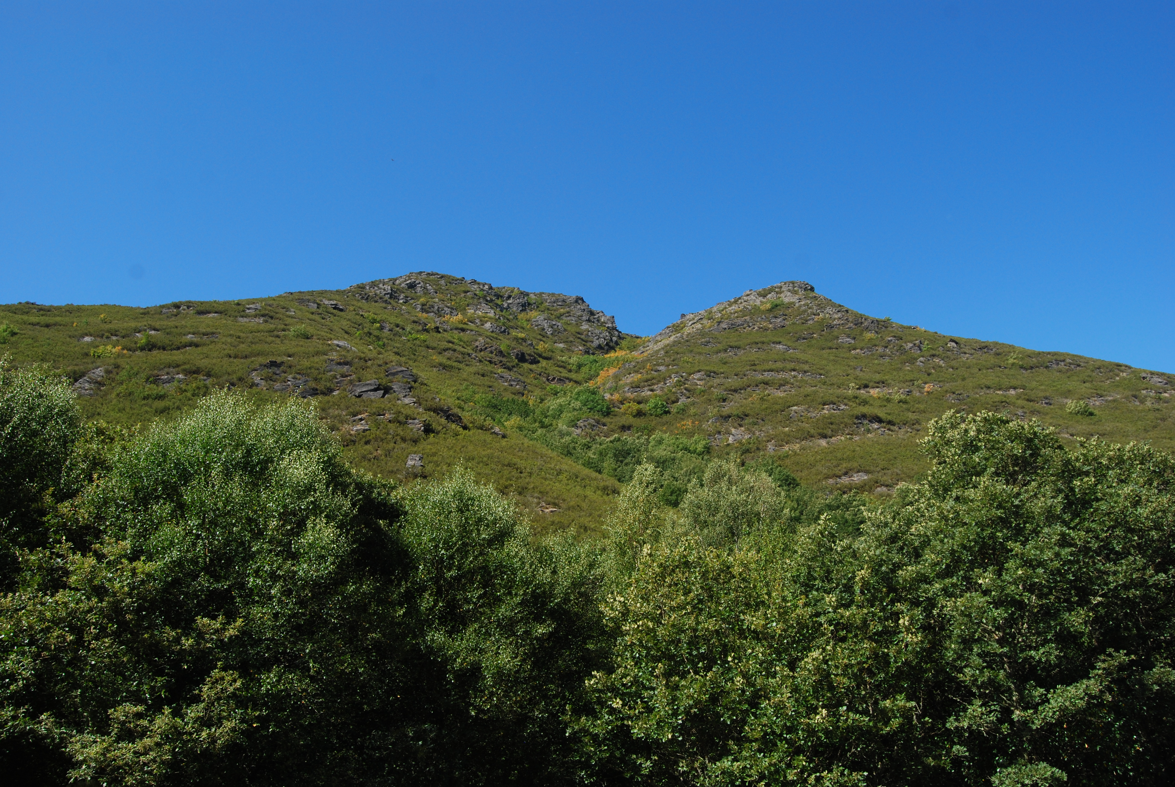 Parque natural do Invernadeiro.